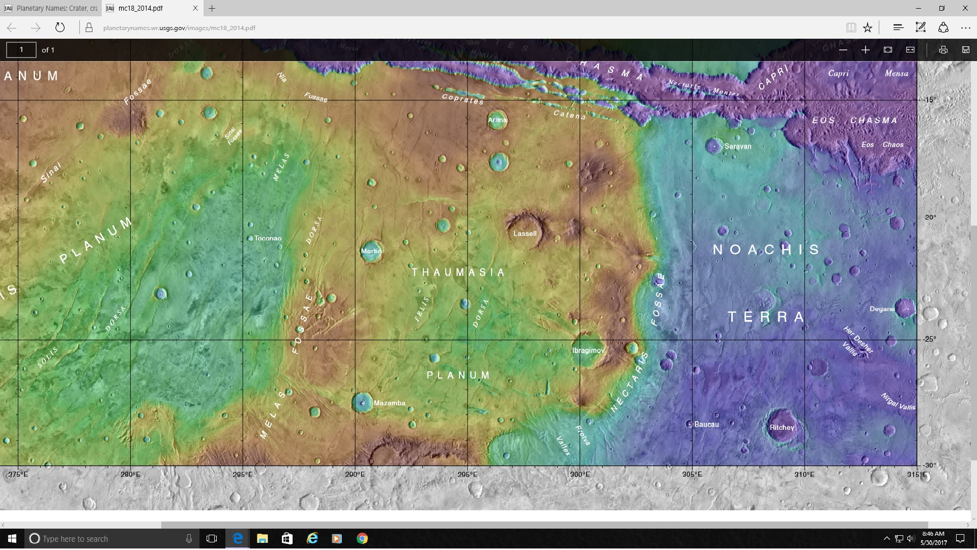 Map of region around Thaumasia Planum showing craters